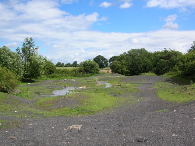 Racecourse station No trains have called here for a long time. This used to be Wetherby racecourse station where passengers could alight for a day's racing. This station was situated on the Tadcaster to Harrogate line which has been fully dismantled for many years as well.